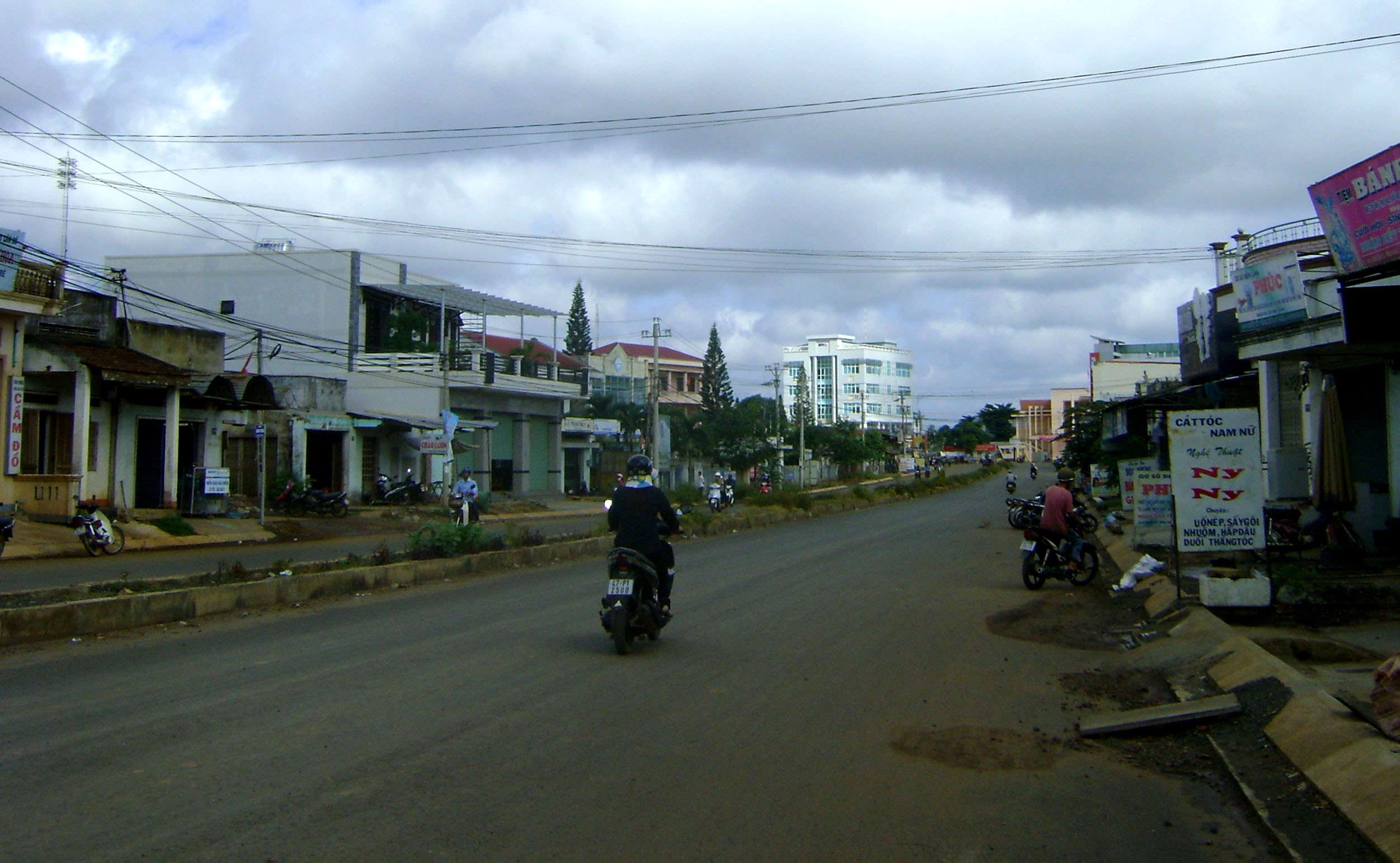 Ea Kar town - EaKar district - Dak Lak Province, in the Central Highlands of Vietnam